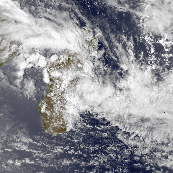 Tropical Disturbance Hutelle on March 1, 1993